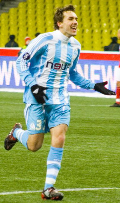 Gaël Givet